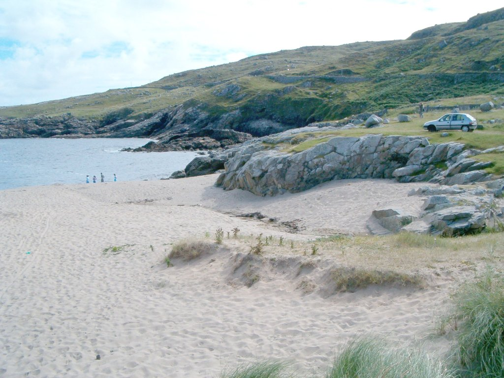 Rosguill is a peninsula. Part of North North West County Donegal, lying between the peninsulae of Fanad to the east and Horn Head to the west, Rosguill is arguably one of the most beautiful dichotomies of heathland and ocean in Ireland. [1]